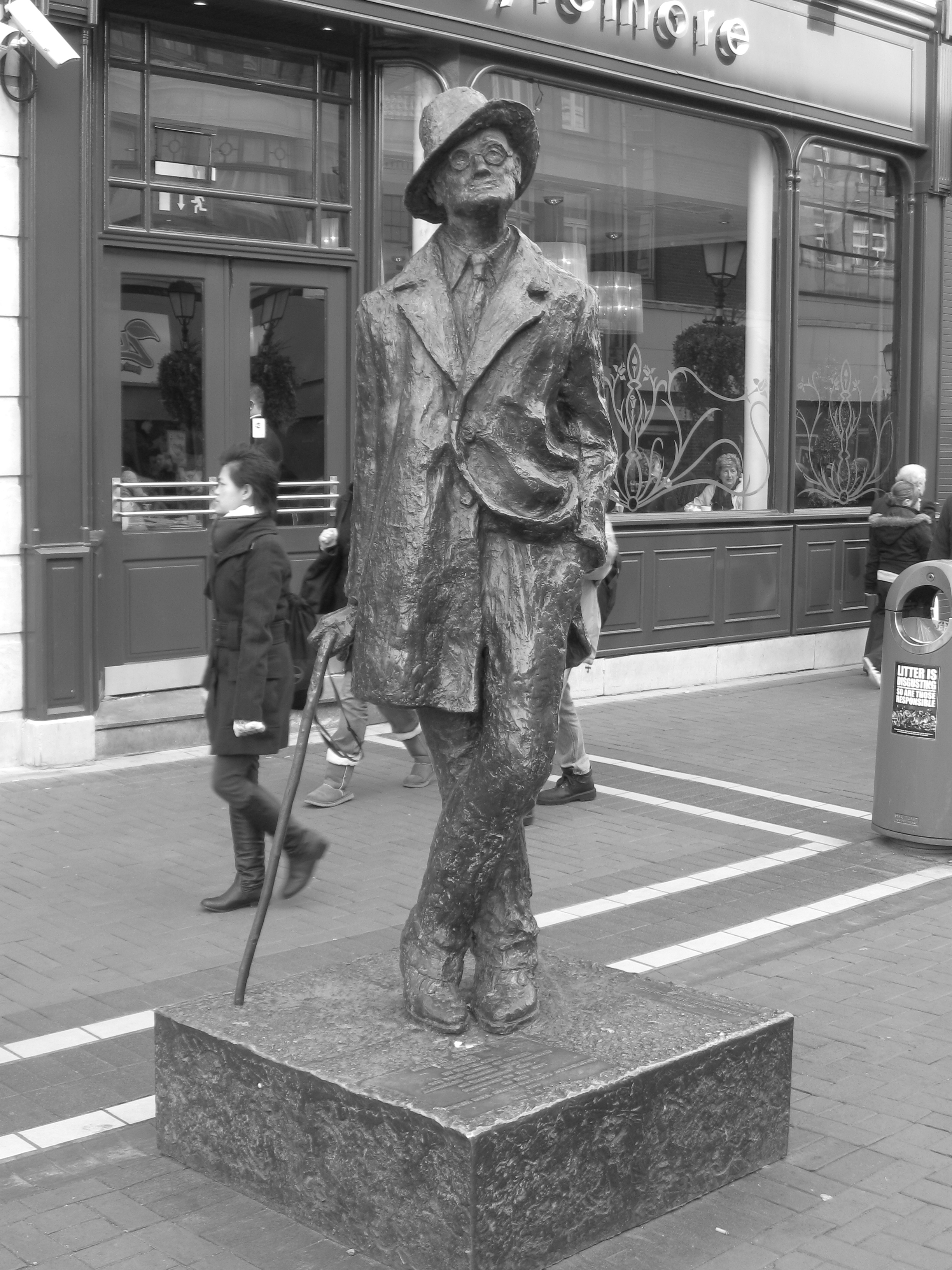 James Joyce statue on North Earl Street near its junction with O'Connell Street in Dublin, Ireland.